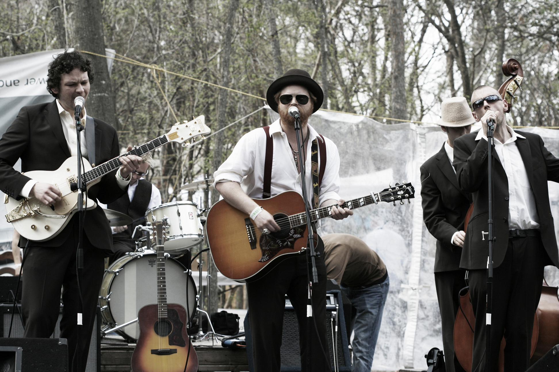 Hey Negrita performing at SXSW 2008